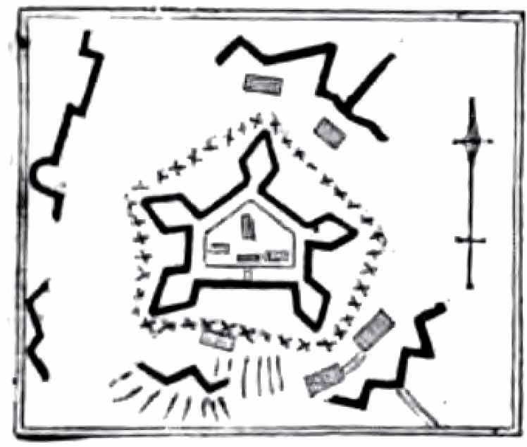 Sketch of Fort Washington on Manhattan. From Benson John Lossing's The pictorial field-book of the revolution: or, Illustrations, by pen and pencil, of the history, biography, scenery, relics, and traditions of the war for independence. Harper & Brothers, 1850.